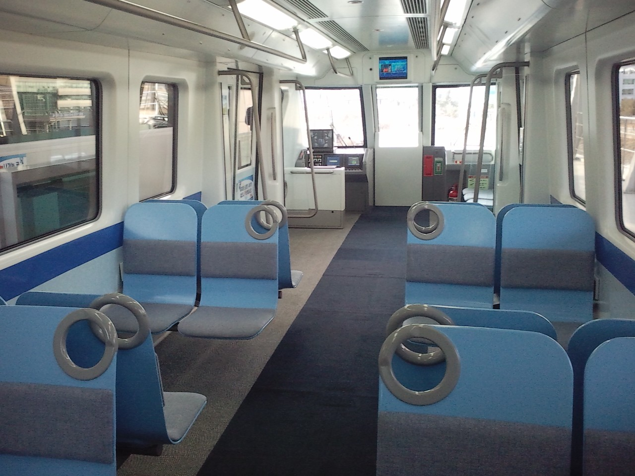 In UTM-02